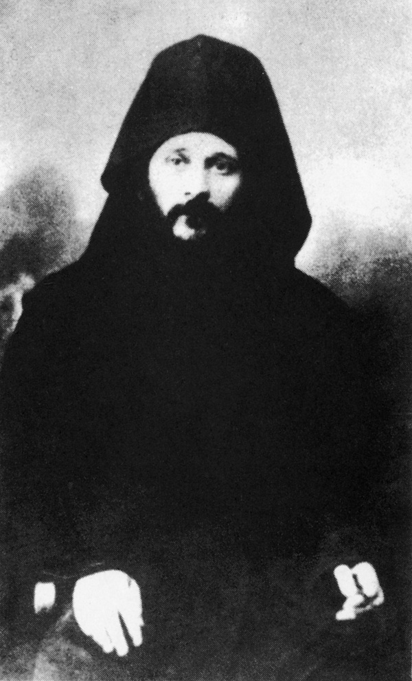 Iosif isihastis, Orthodox Monk